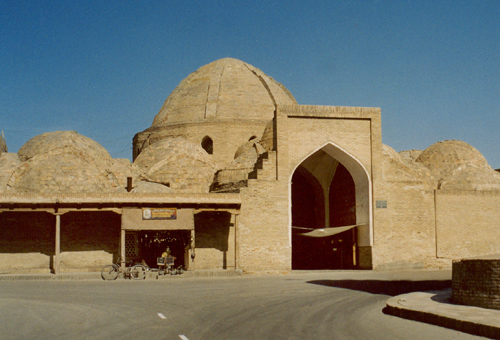 Trade couple Tagi Zargaron in Bukhara.